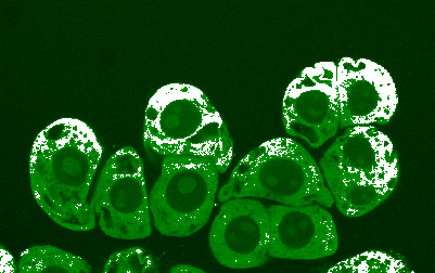 The production and diffusion of nitric oxide (NO) (white) in the cytoplasm (green) of clusters of conifer cells one hour after mechanical agitation. NO diffuses into the culture medium around cell clusters. The large dark green circle inside each cell is the nucleus. Some nuclei may contain a nucleolus (light green). The small and irregular dark areas outside the nucleus and in the cytoplasm represent the vacuoles (laser confocal photomicrograph ×400). NO was visualized with a fluorescent probe DAF-2 DA (diaminofluorescein diacetate). NO is derived from L-arginine and oxygen by nitric oxide synthase (NOS) activity in conifers and humans. NOS activity and the production of NO in the conifer cells is blocked by Nω-monomethyl-L-arginine. Journal of Ethnobiology and Ethnomedicine 2009 5:5 Species: Taxus brevifolia (thanks to Don Durzan for information)